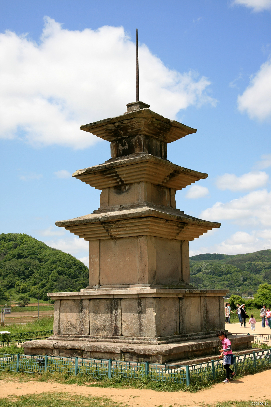 Pagoda at Gameunsa temple ruins in Gyeongju, North Gyeongsang province, South Korea